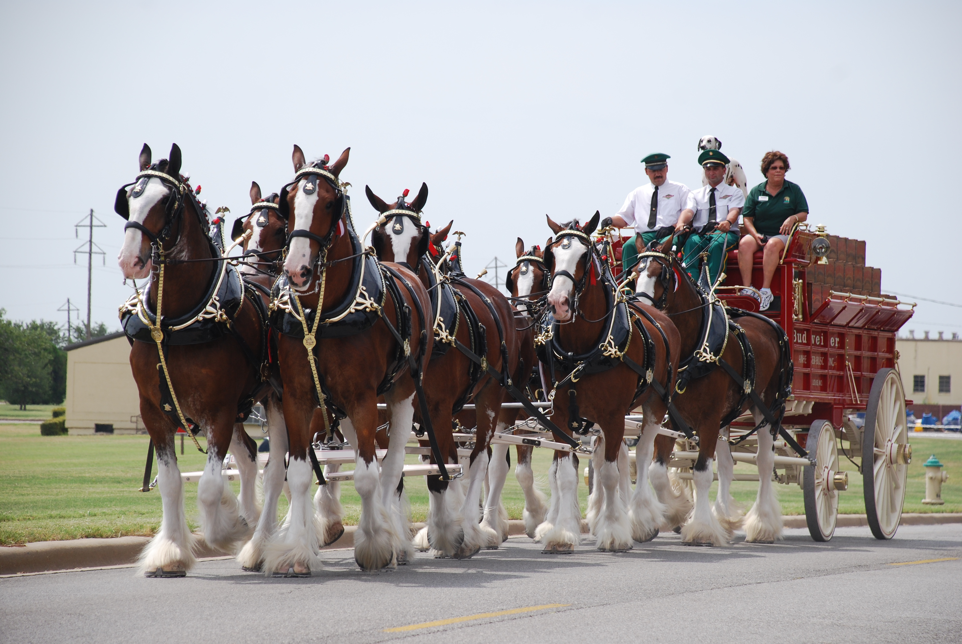 The Anheuser-Busch Clydesdales on August 13, 2009. The Clydesdales tour the country promotionally and always attract crowds with their size and graceful appearance.